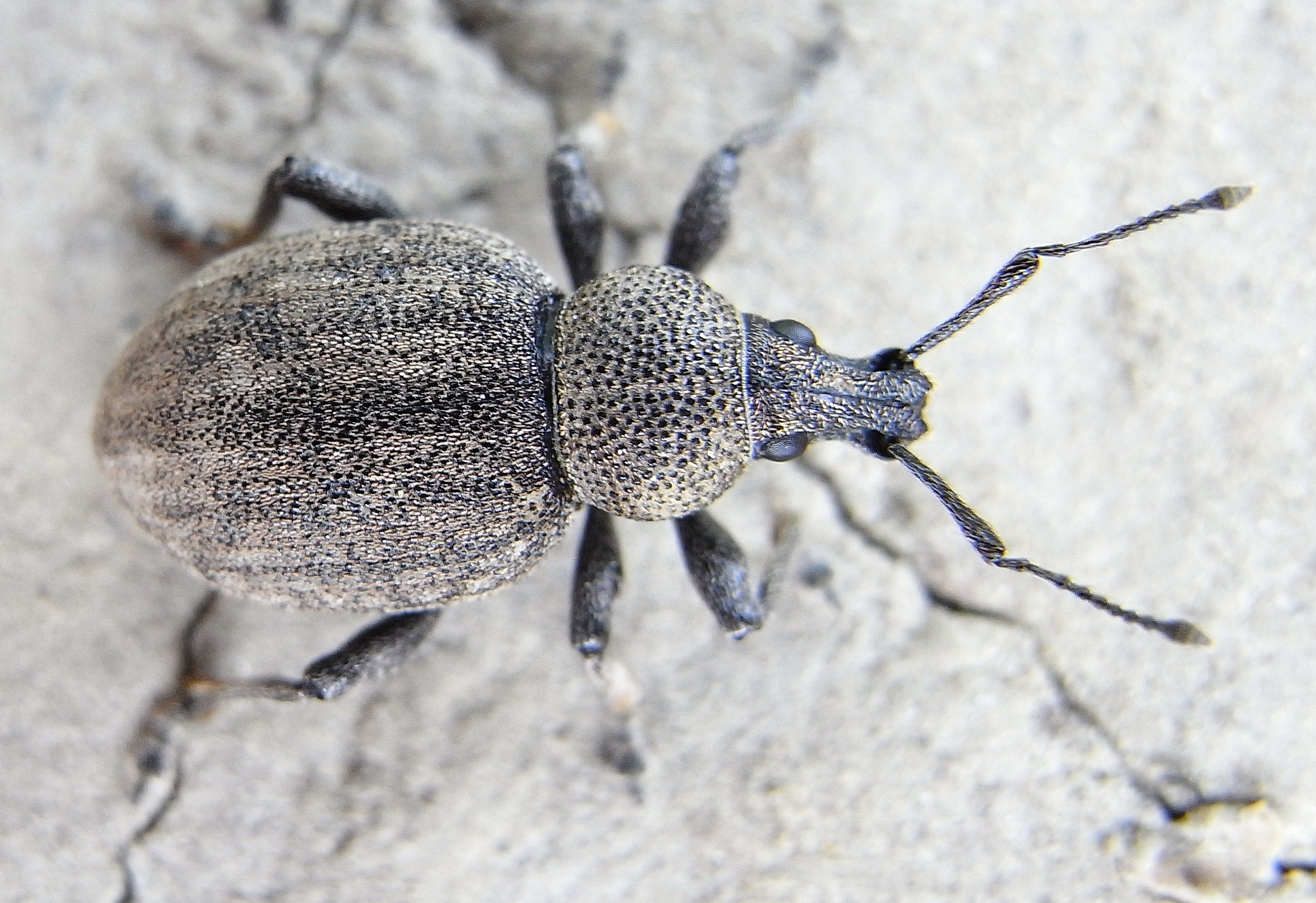 Otiorhynchus ligustici from Hungary near Harkany at 2010-05-06Ricoh R8